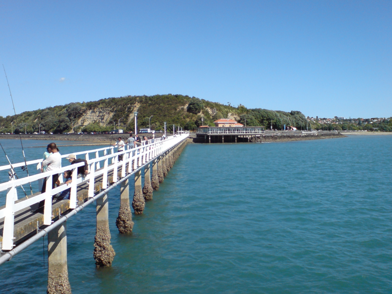 Bastion Point in Auckland City, New Zealand. Seen from the long pier jutting into the Waitemata Harbour.